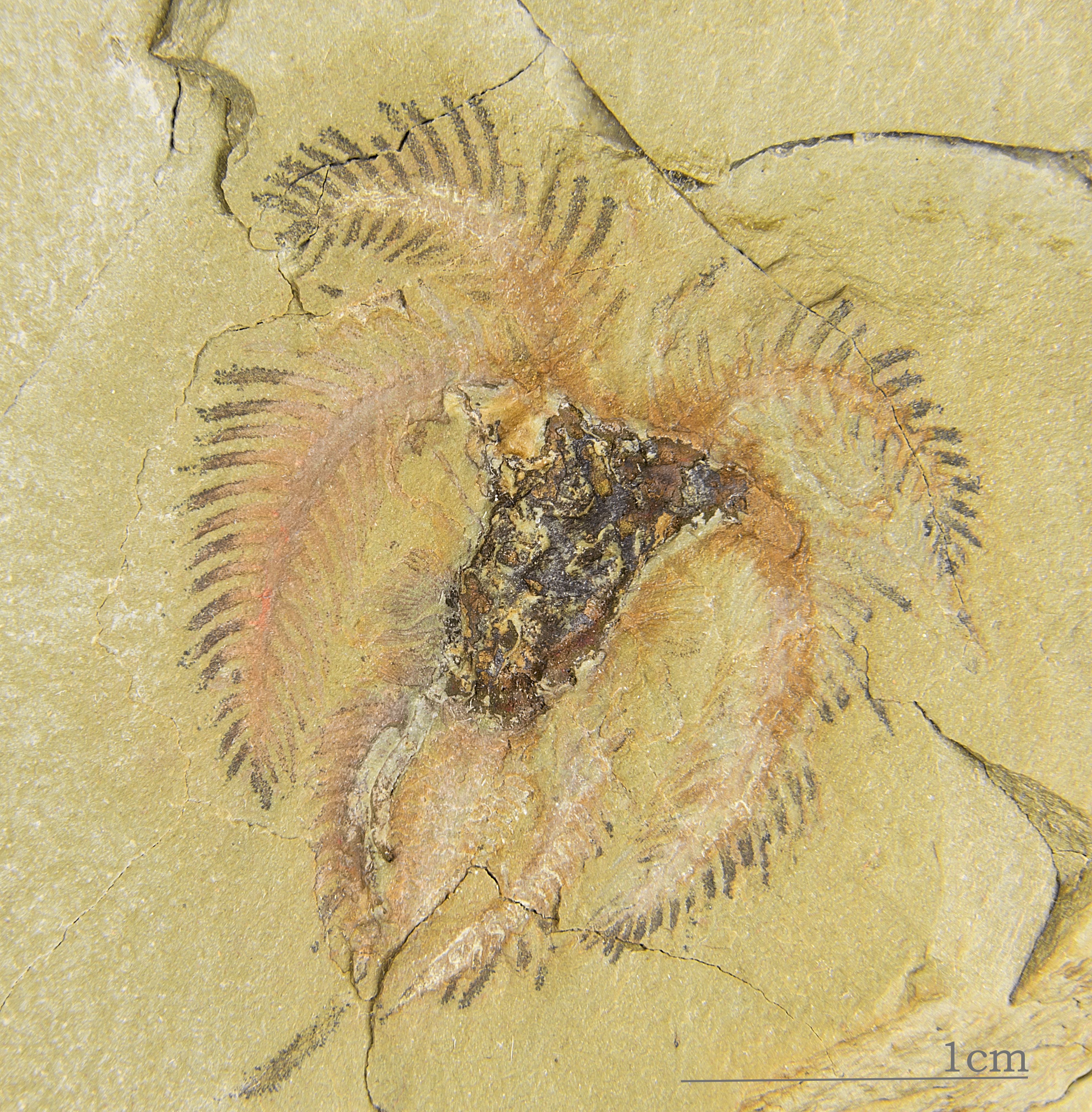 Holotype of Furca mauritanica. Early Ordovician (Upper Fezouata Formation)